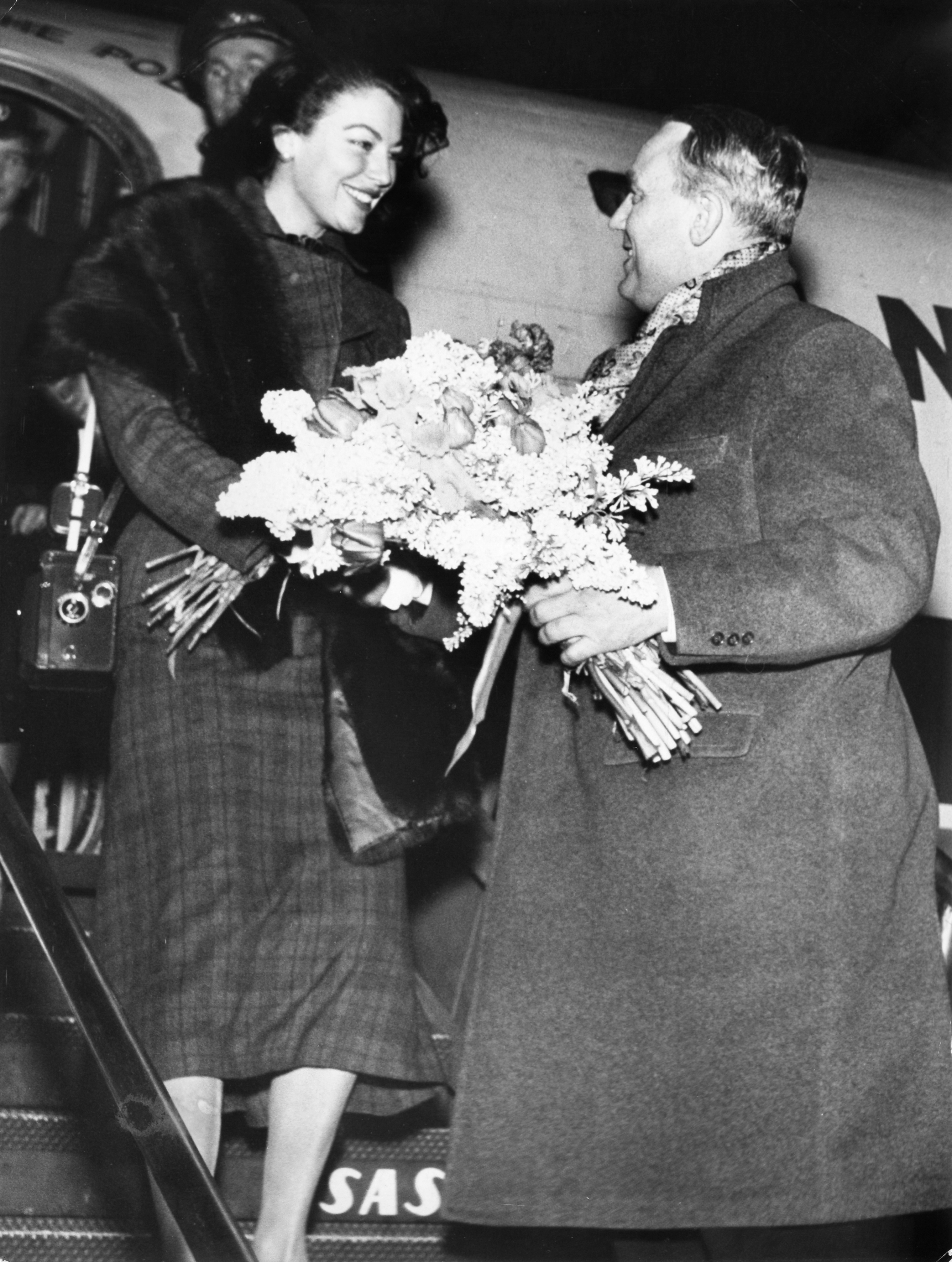 Ava Gardner 1955-02-21 at Kastrup Airport CPH, Copenhagen